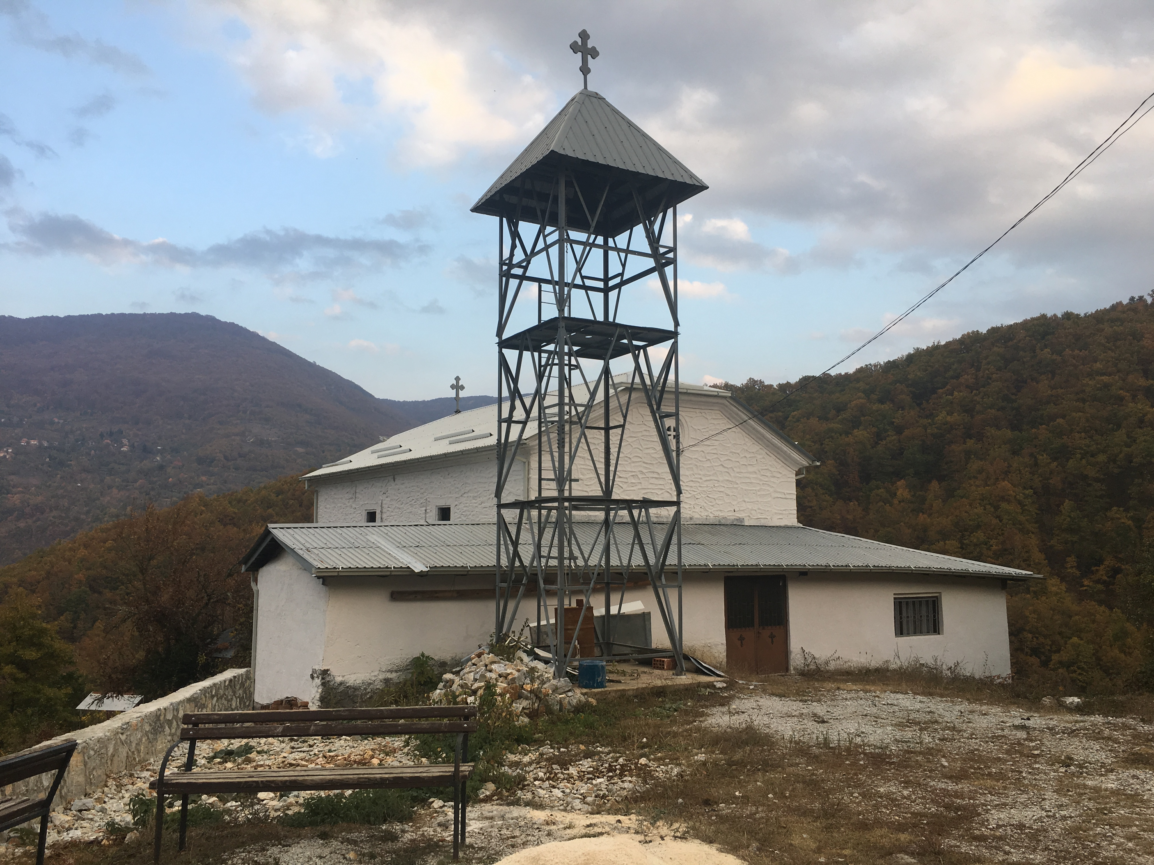 Wikiexpedition to Kopačka